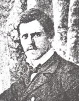 portrait of Krustio Asenov